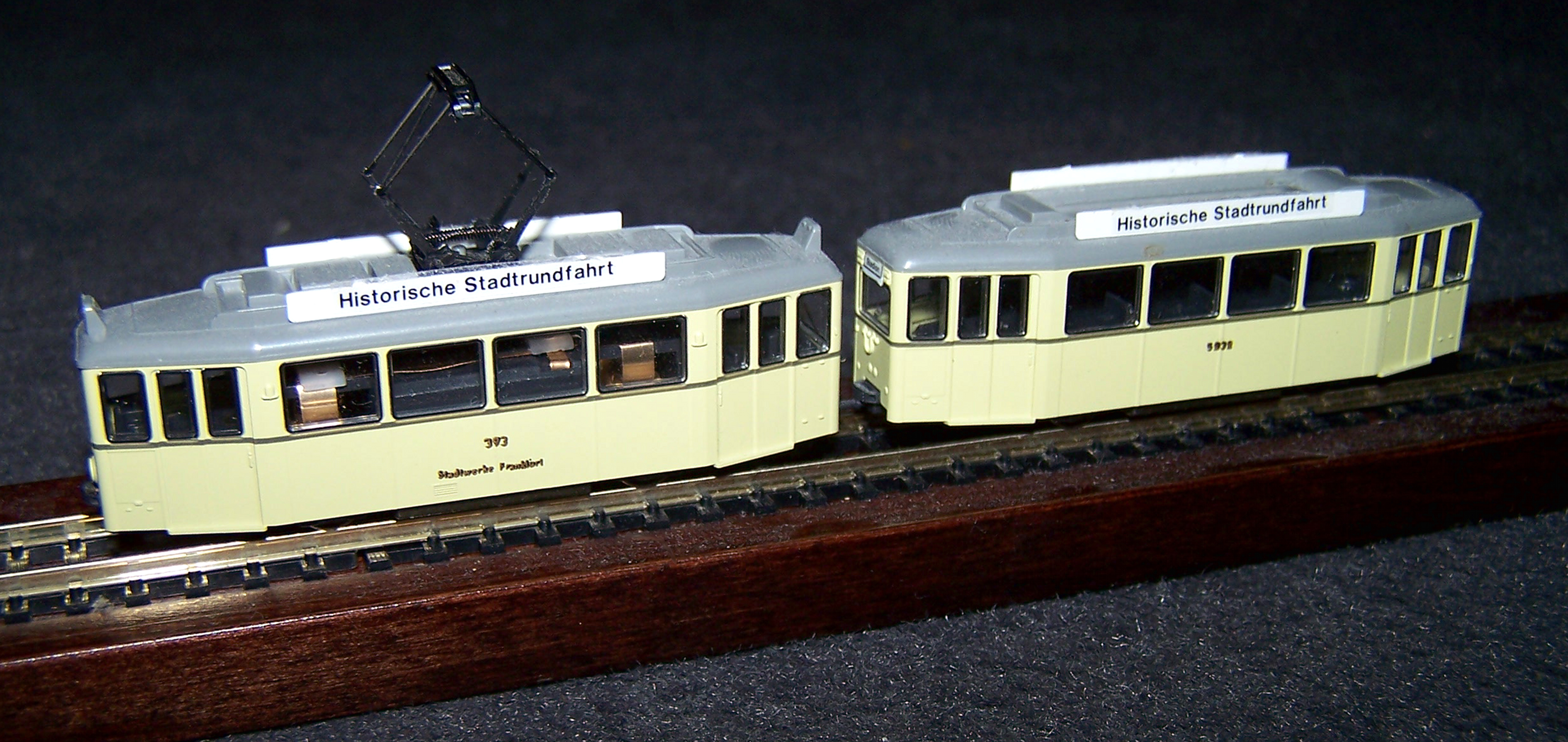 Model of a DUEWAG-Tram (Umbauwagen) in N scale made by KATO